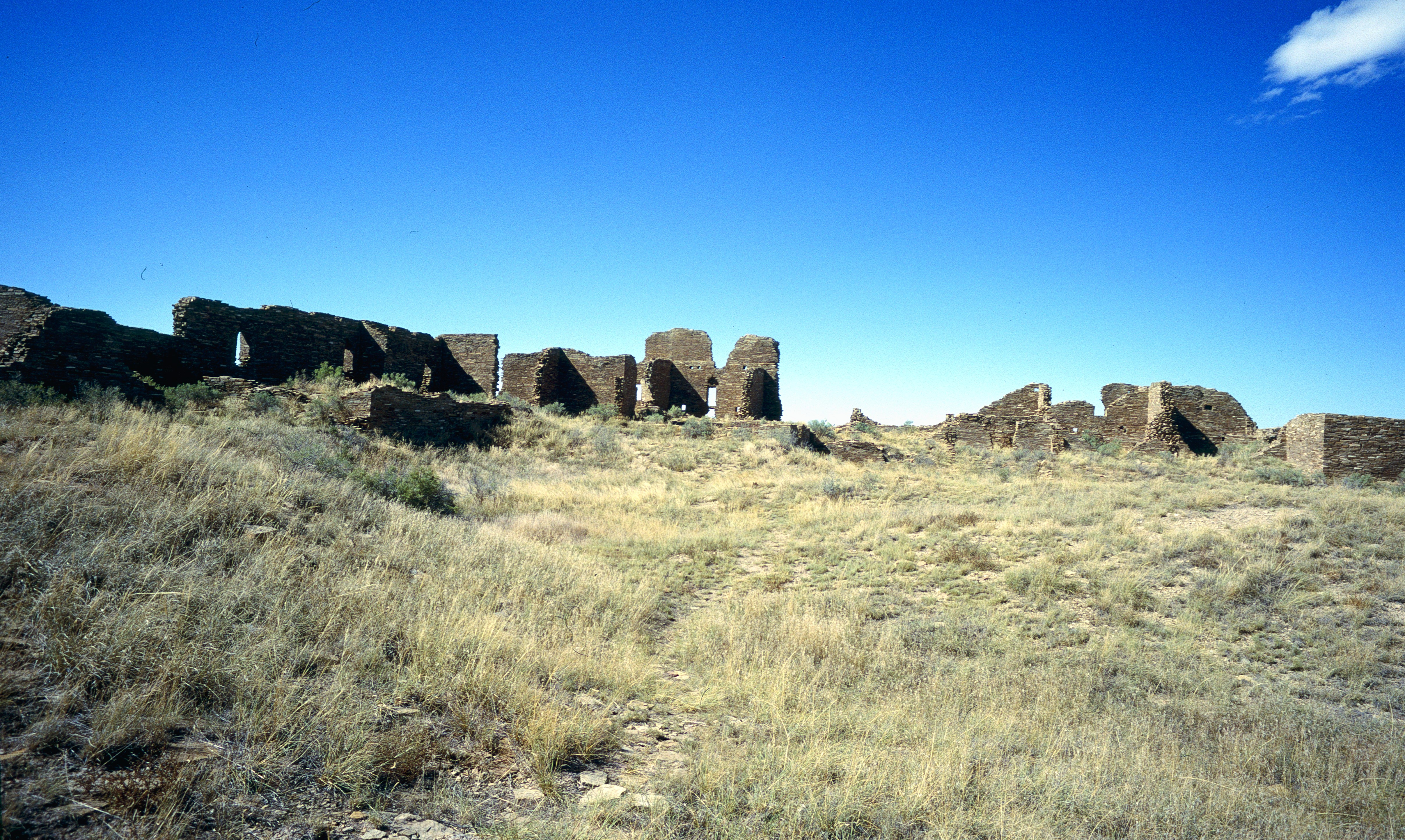 Pueblo Pintado, Chaco Canyon, New Mexico, U. S. A.